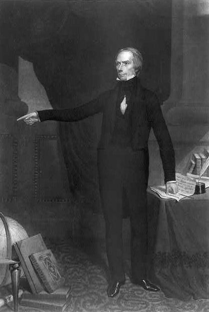 Henry Clay. Engraving by John Sartain.